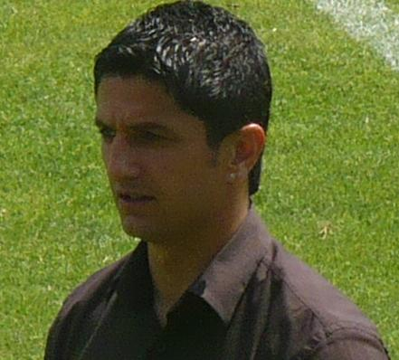 Răzvan Lucescu. The original description page was here. All following user names refer to en.wikipedia.